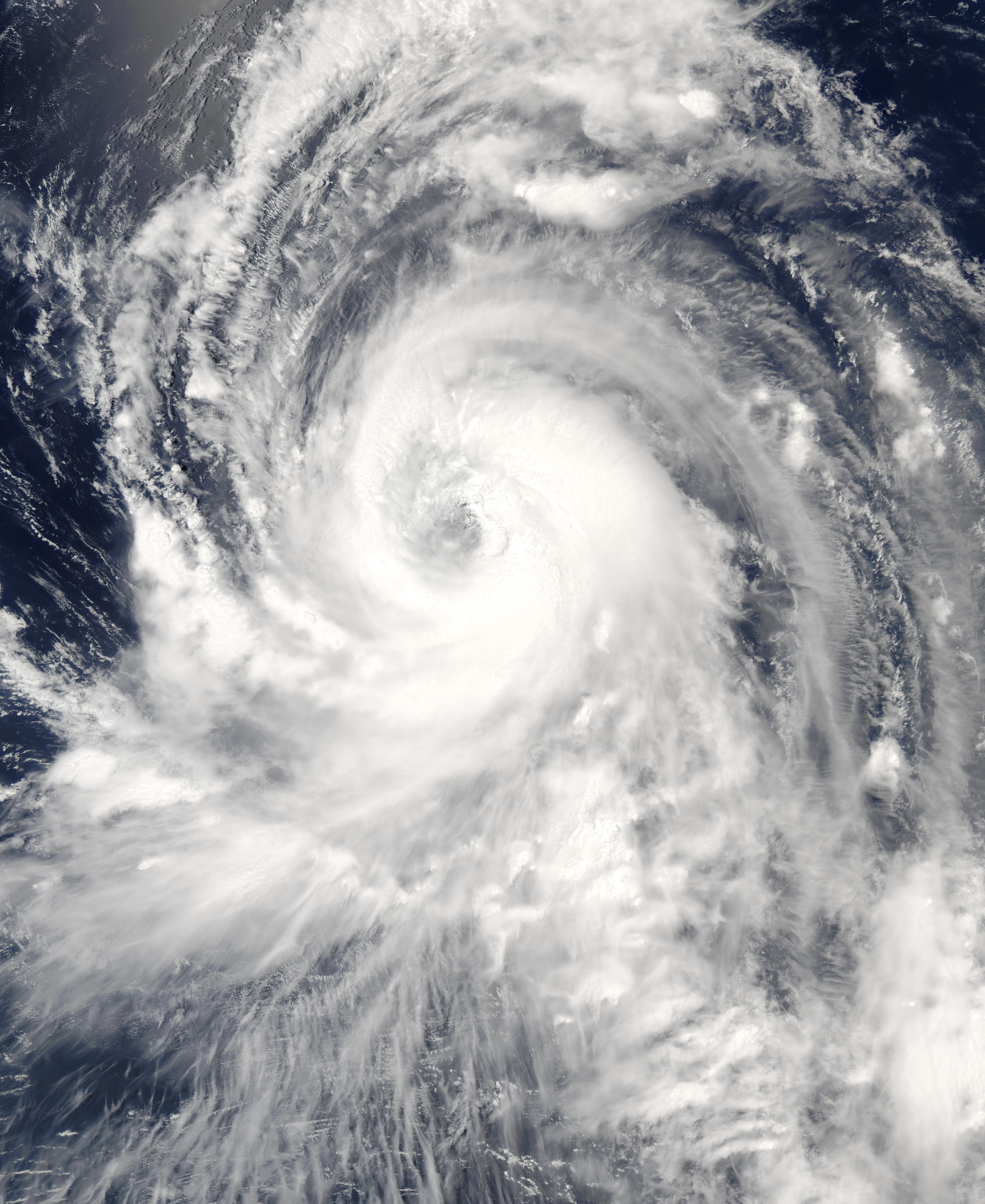 The MODIS instrument onboard NASA's Aqua (satellite) satellite captured this true-color image of Typhoon Tingting on June 29, 2004 at 3:45 UTC. At that time, Tingting was located approximately 345 miles south-southeast of Iwo Jima and was packing sustained winds of 92 mph with higher gusts to 115 mph. The storm was forecast to strengthen and continue on a west-northwest path.